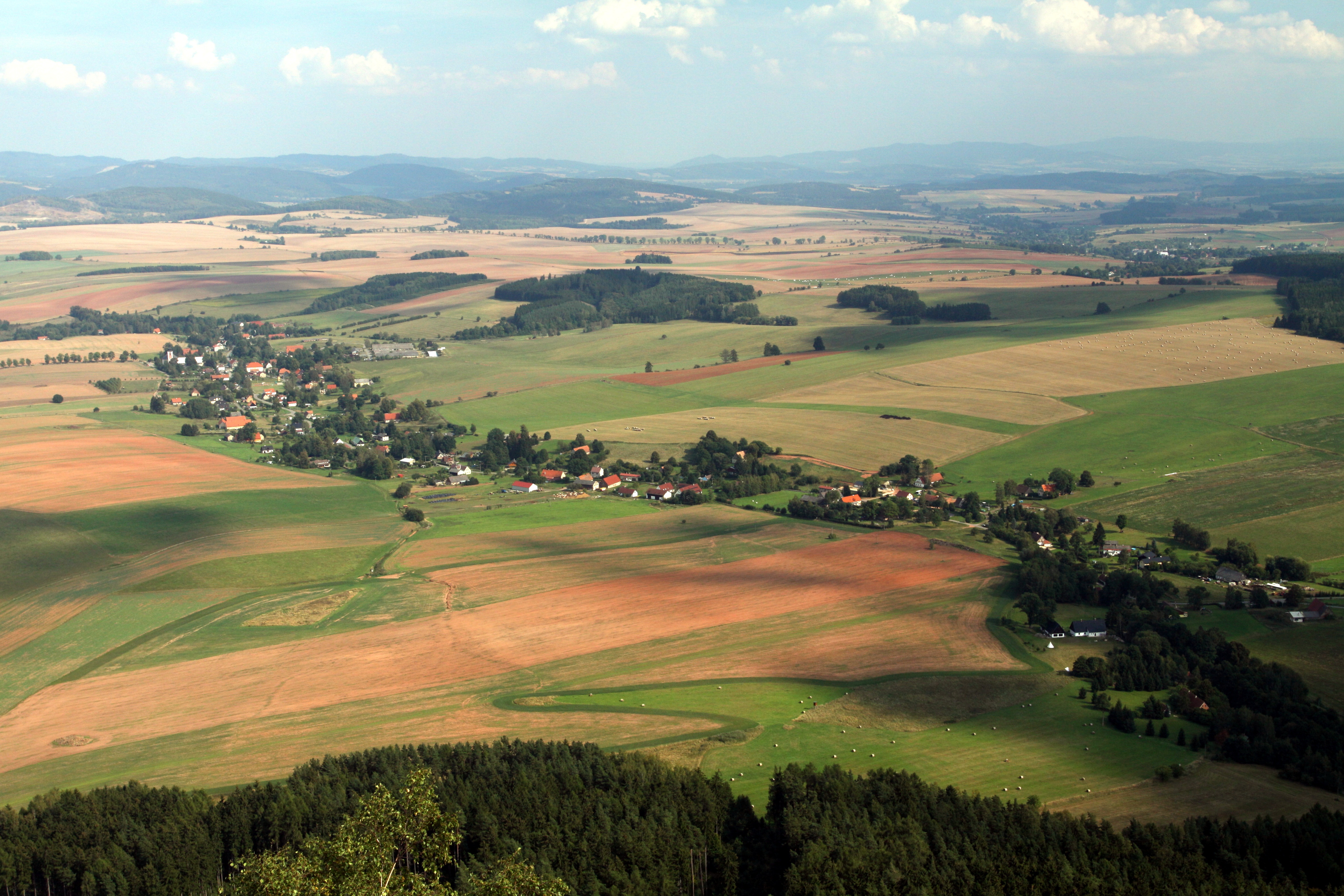 National nature reserve Broumovské stěny in Náchod District, Czech Republic